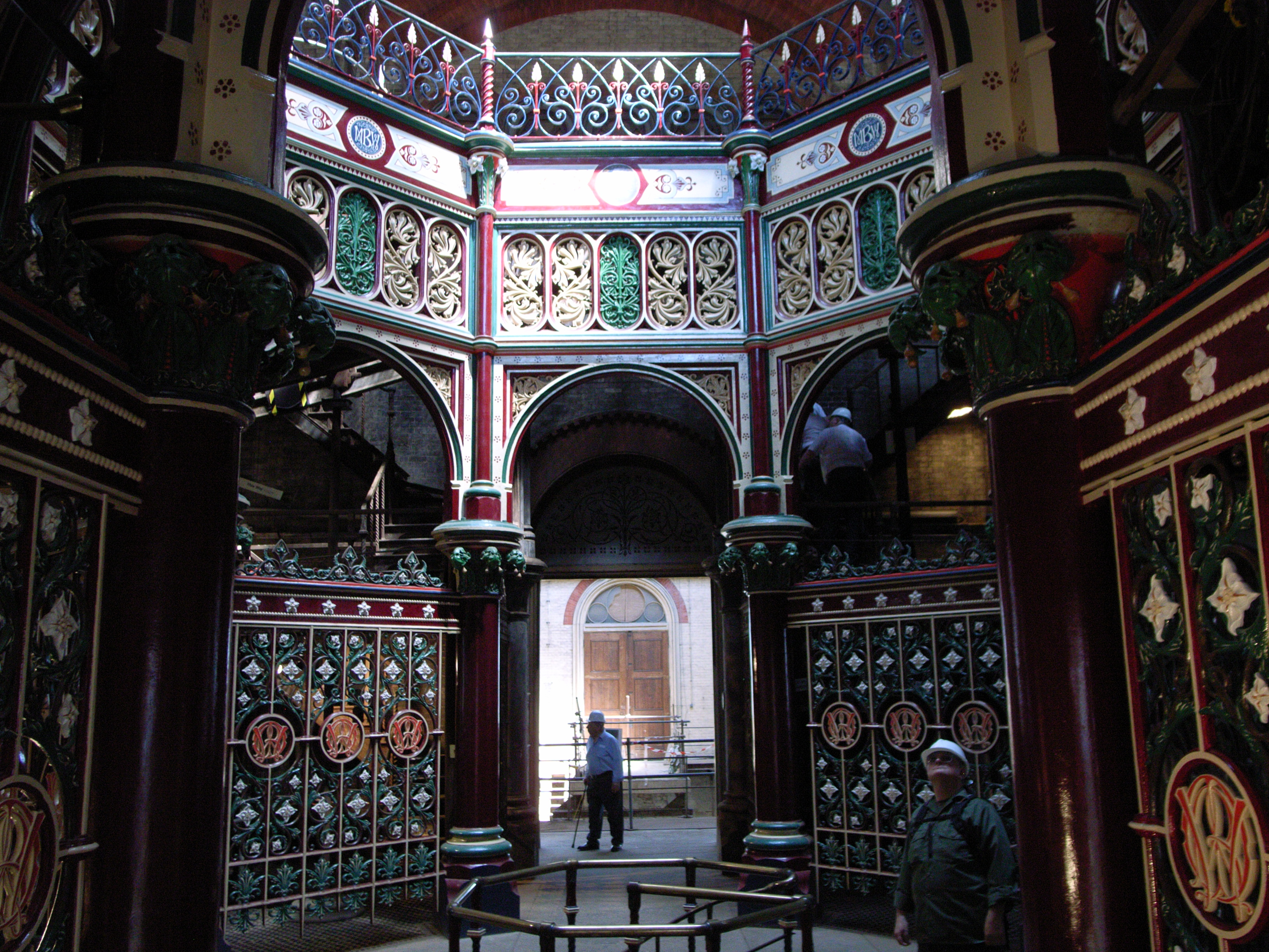 "The Octagon", Crossness Pumping Station (opened 1865), architect Charles H. Driver